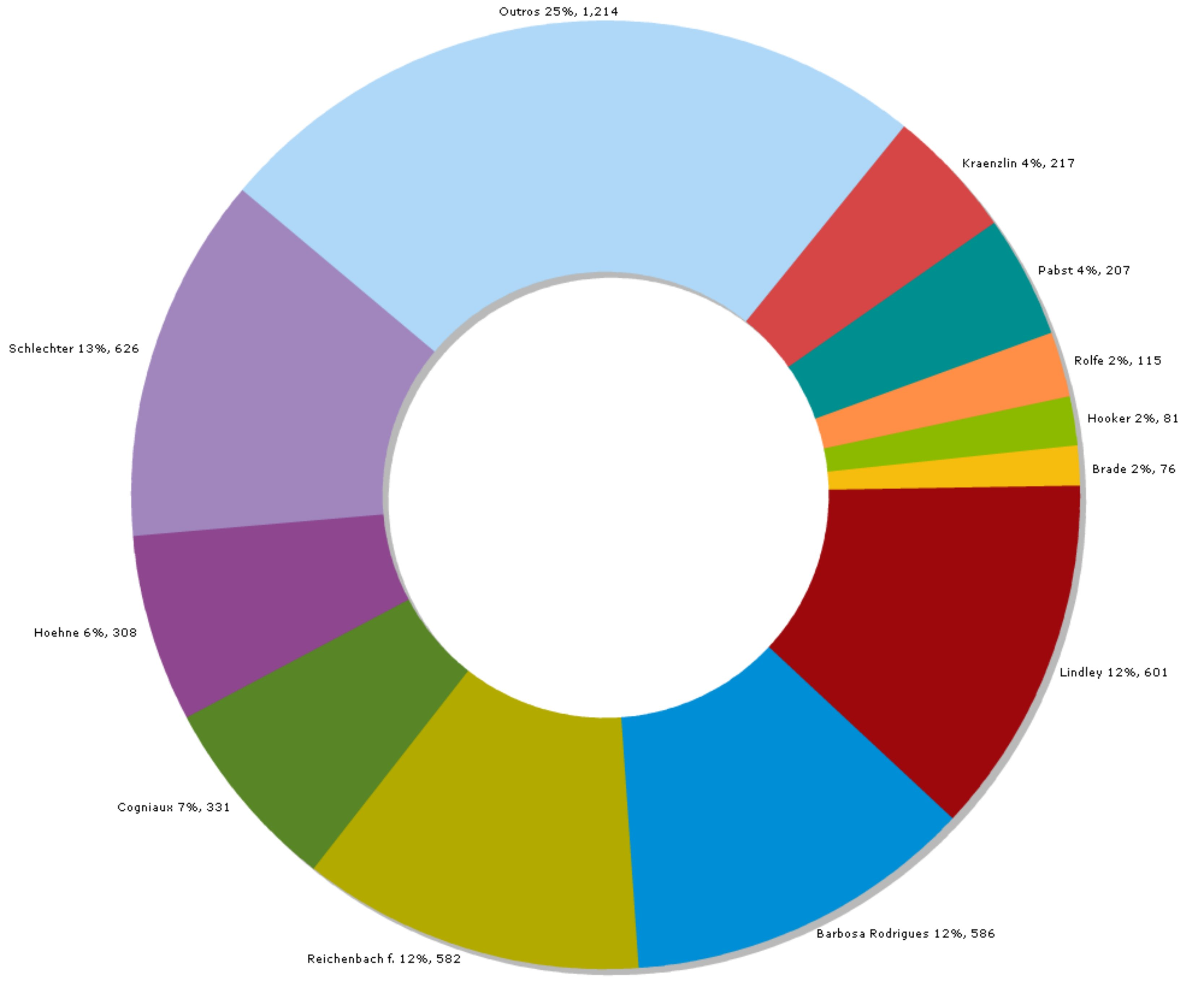 Number of species of orchids of Brasil published by each author up to 1980. Only heterotypic species, not homotypic synonyms.